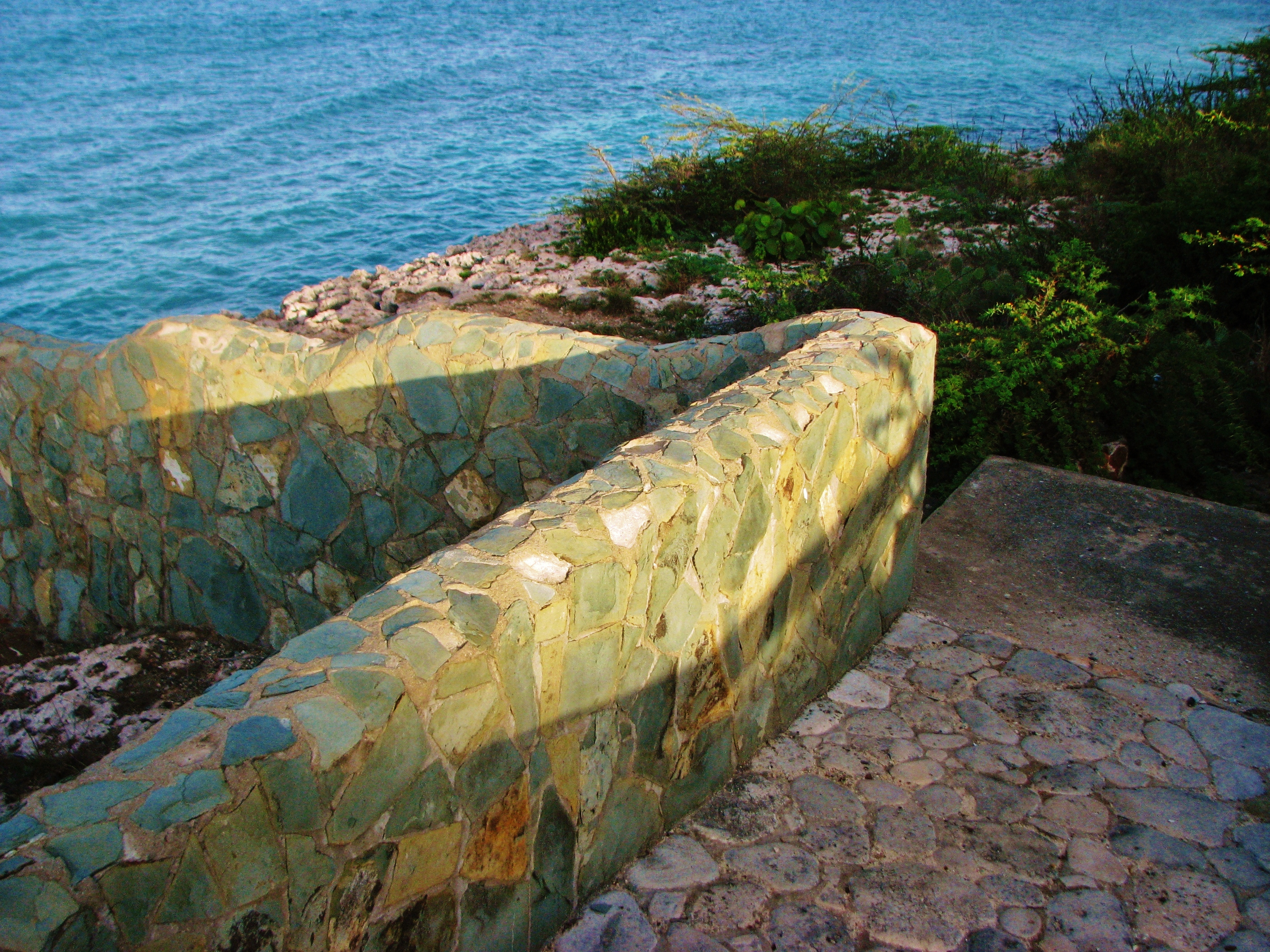 Rodgers Beach, Aruba